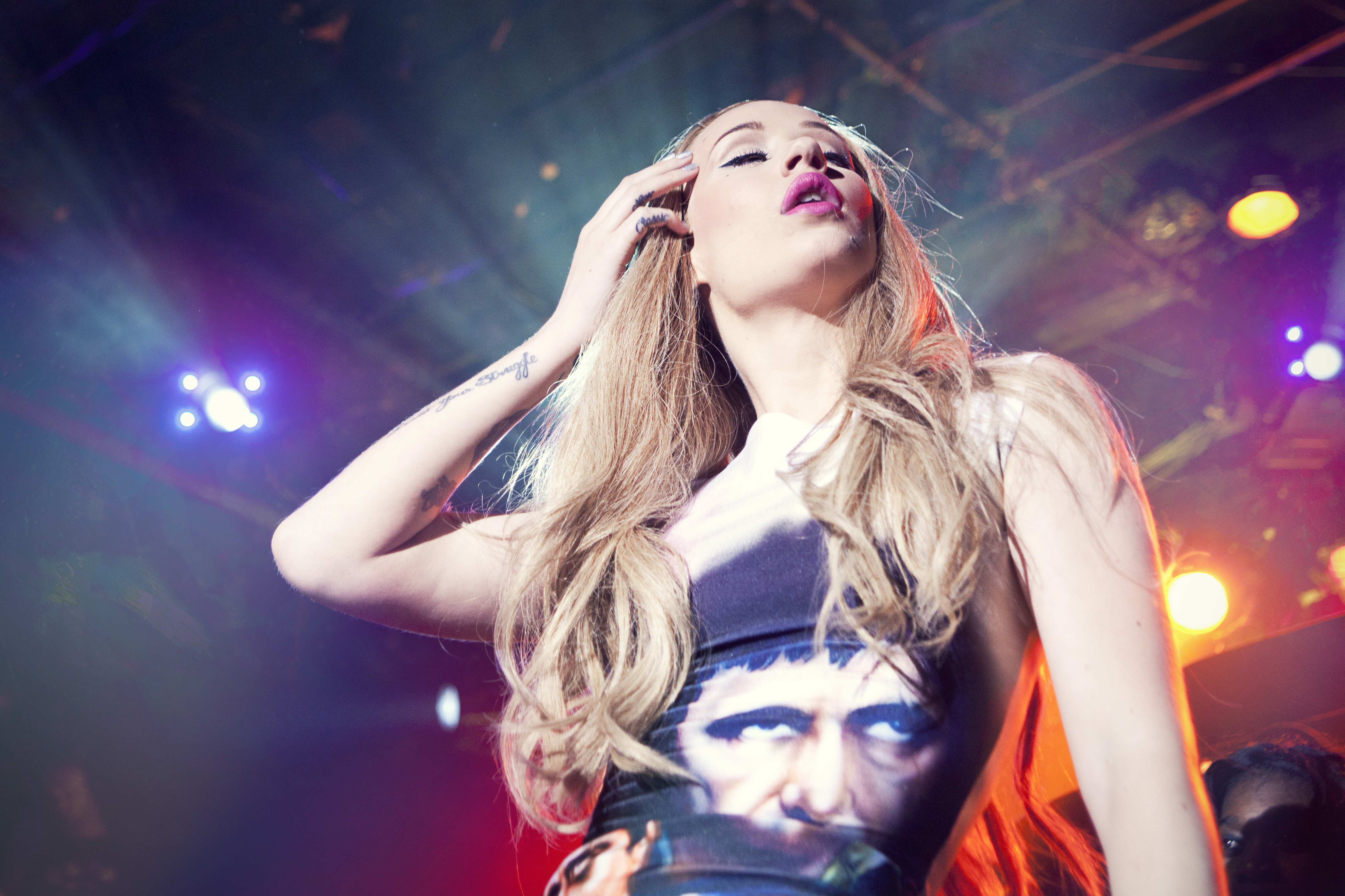 Iggy Azalea performing at Irving Plaza in 2014